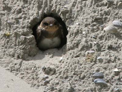 Riparia riparia